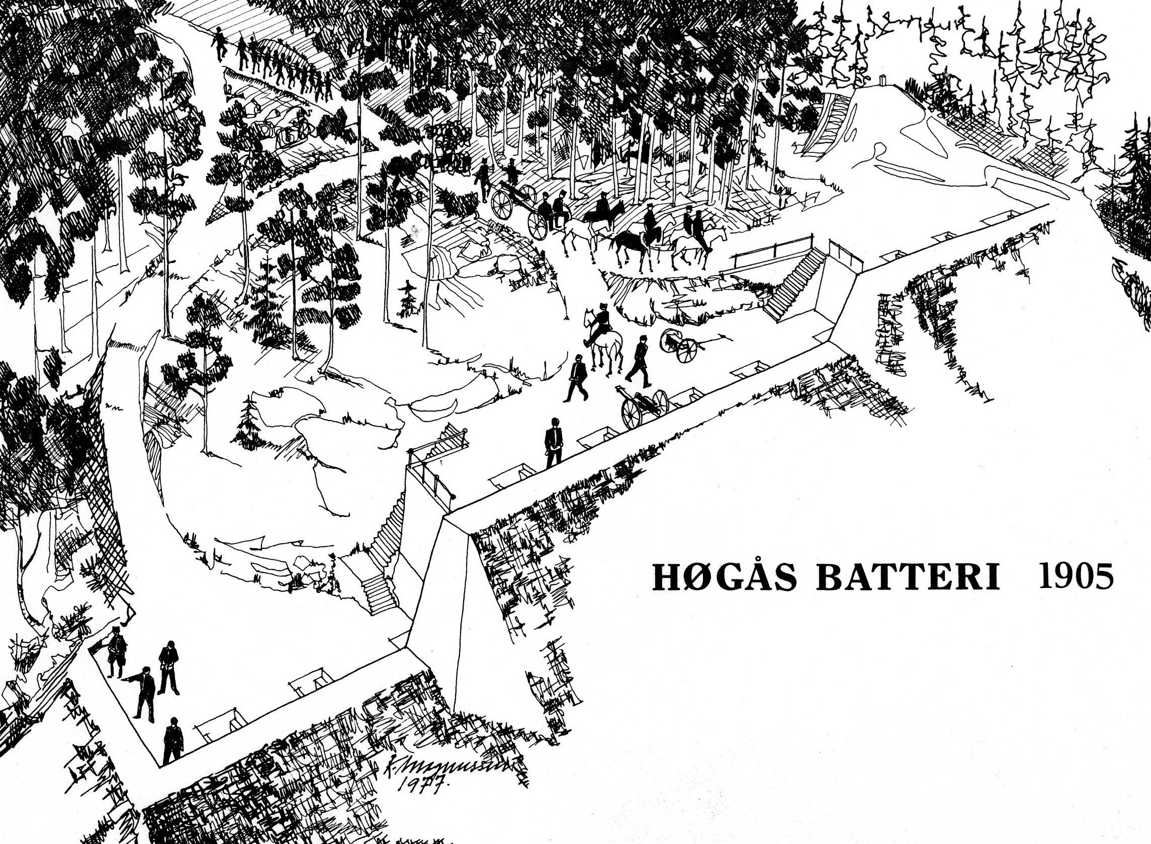 illustration of military units getting Hoegaas battery, Fetsund, Norway at the ready in 1905